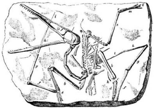 Pterodactylus antiquus (Soemmerring, 1812) from the Upper Jurassic of Eichstätt (Bavaria (Bayern), Germany) in original position. This specimen was the first pterosaur ever studied scientifically and was described 1784 by Cosimo Alessandro Collini (1727-1806).